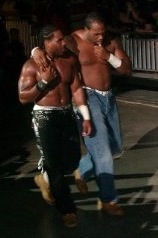 Cryme Tyme after losing a match at a Puerto Rico house show.